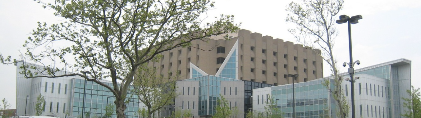 Annex 1 and Annex 2 (foreground) and Main Building (background) of the United States Environmental Protection Agency Andrew W. Breidenbach Environmental Research Center in Cincinnati